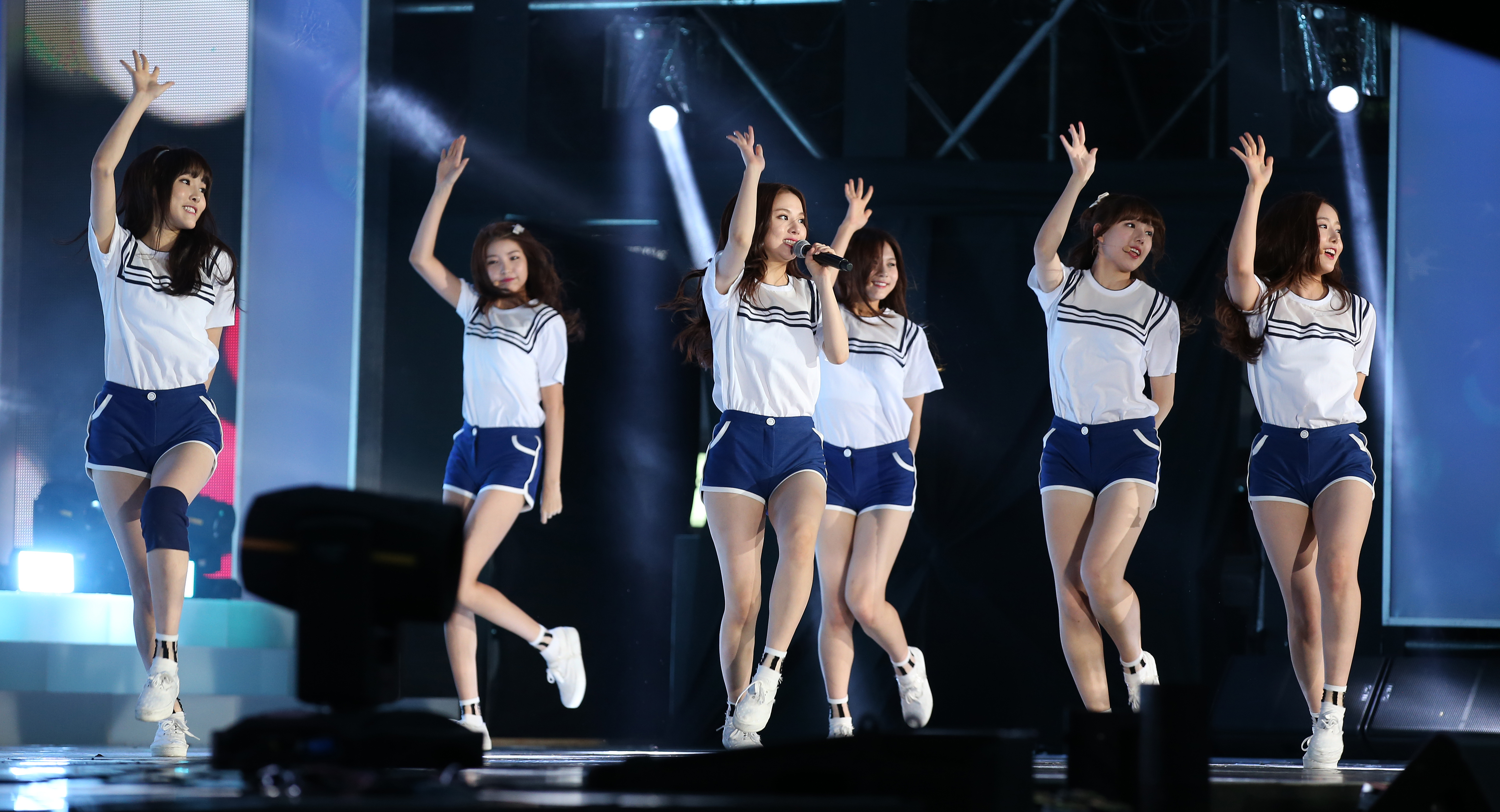 2015 Summer K-POP Festival August 4, 2015 Seoul Plaza Ministry of Culture, Sports and Tourism Korean Culture and Information Service ( Official Photographer : Jeon Han